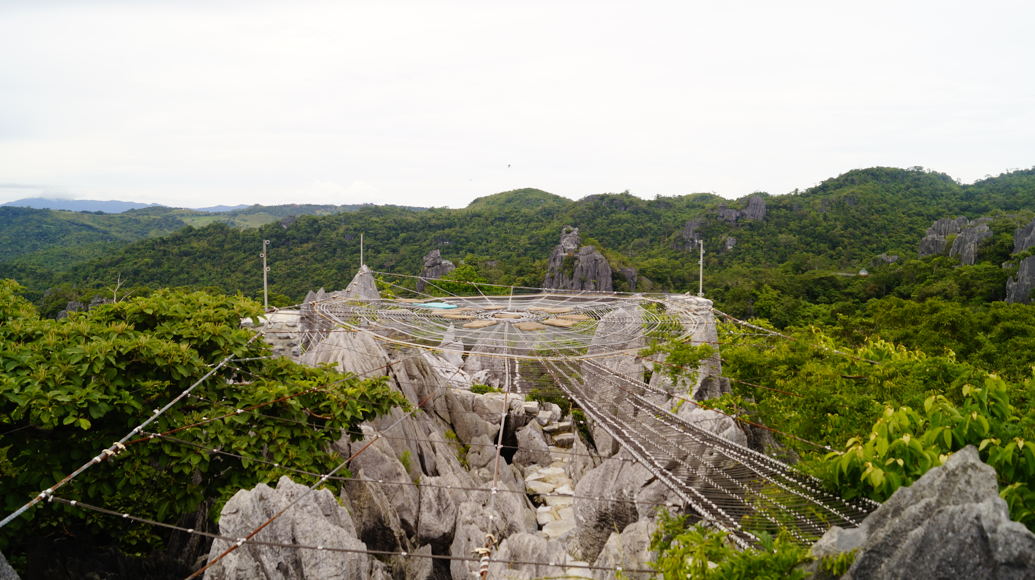 A web-style viewing platform of Masungi Georeserve with a spectacular view of Laguna de Bay - the biggest lake in the Philippines.